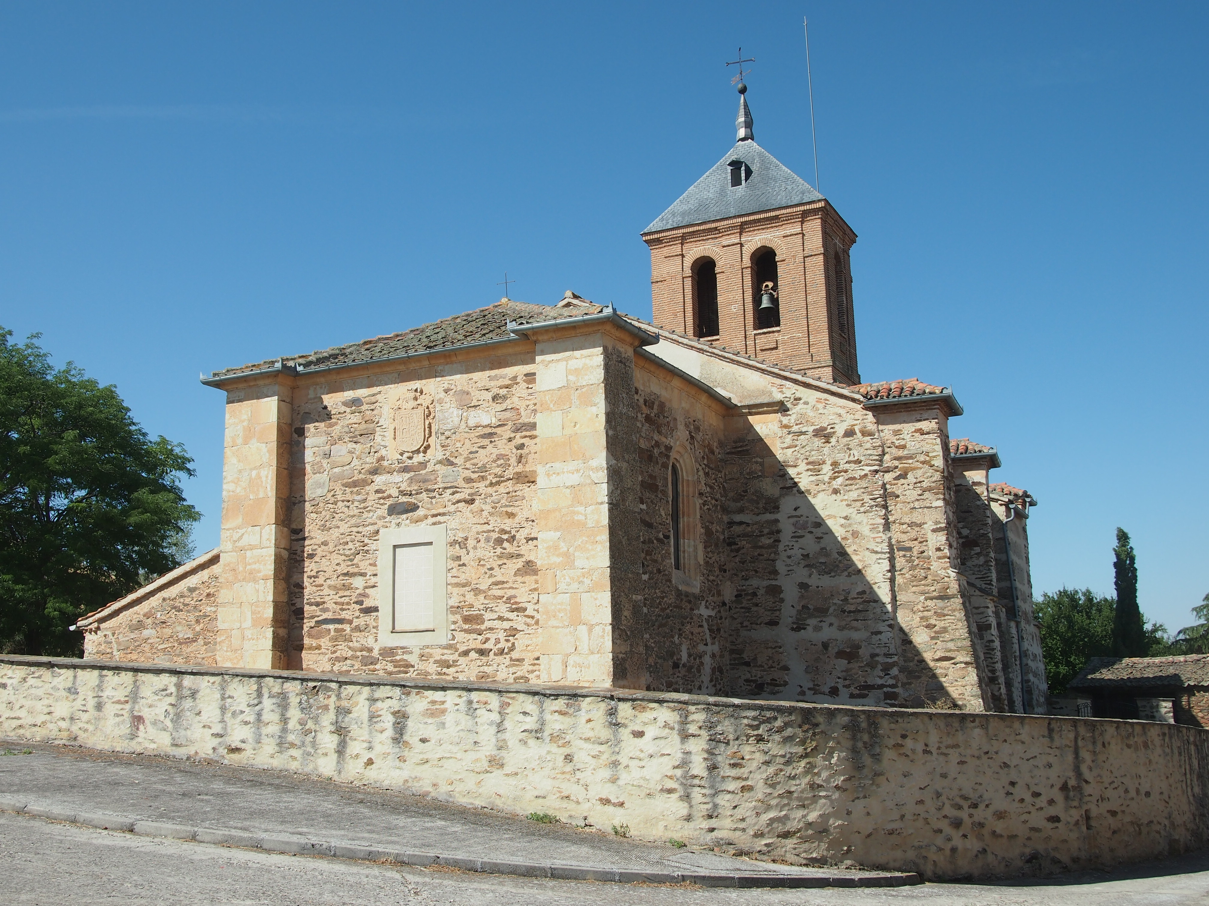 St. Cecilia's Church in Domingo García, Segovia (España). Rear view